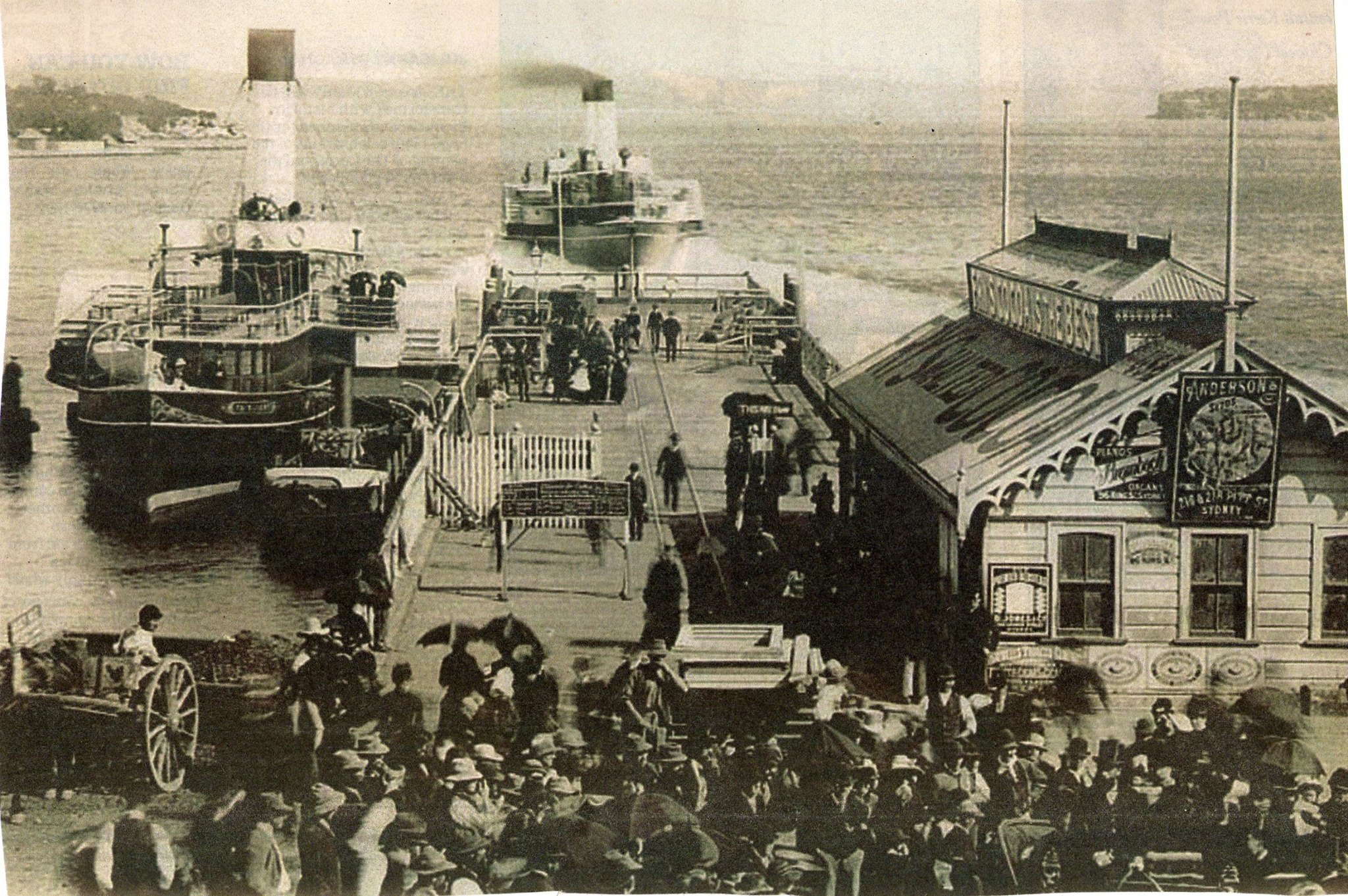 Sydney Ferries FAIRLIGHT (1878 - 1912) and BRIGHTON (1883 - 1916) at Manly Wharf